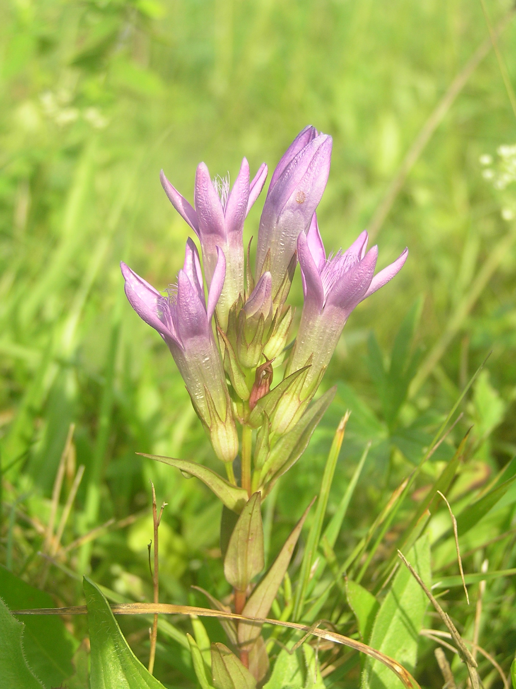 Gentianella praecox subsp. bohemica, PP U Žlíbku near Protivanov, Czech Republic